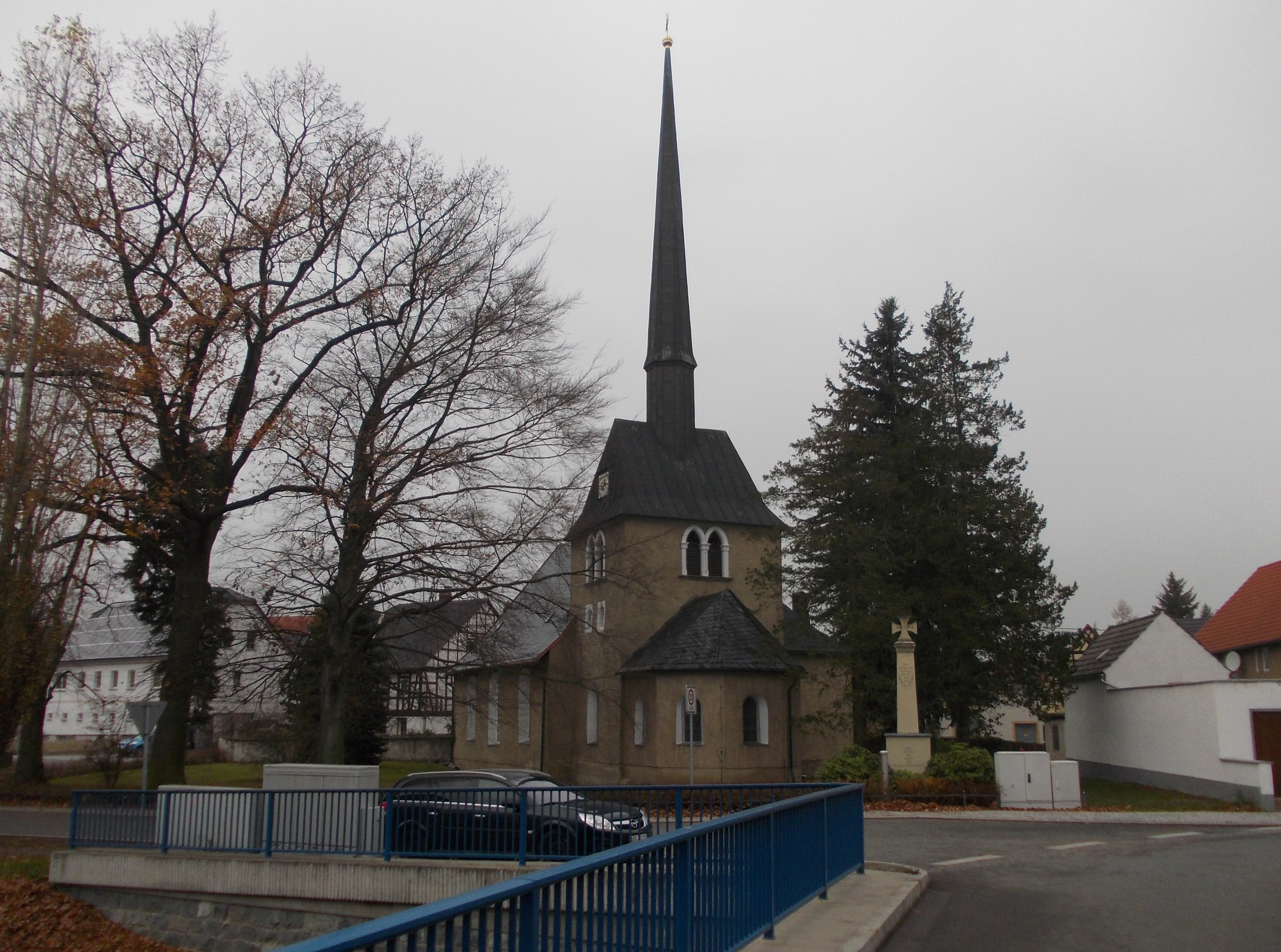 Grossstöbnitz church (Schmölln, Altenburger Land district, Thuringia)